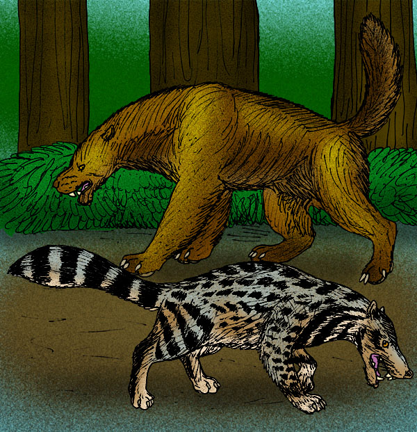 Comparison of the dog-sized weasel Ekorus ekakeran, of what is now Kenya, with the jackal-sized civet, Viverra leakeyi, of what is now South Africa. From the Late Miocene of Africa (C) Stanton F. Fink